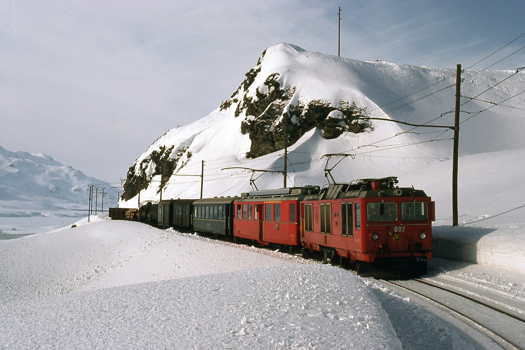 Berninabahn train above Lago Bianco with Gem 4/4 802 and an ABe 4/4 II railcar. Gem 4/4 802 is still in original condition.